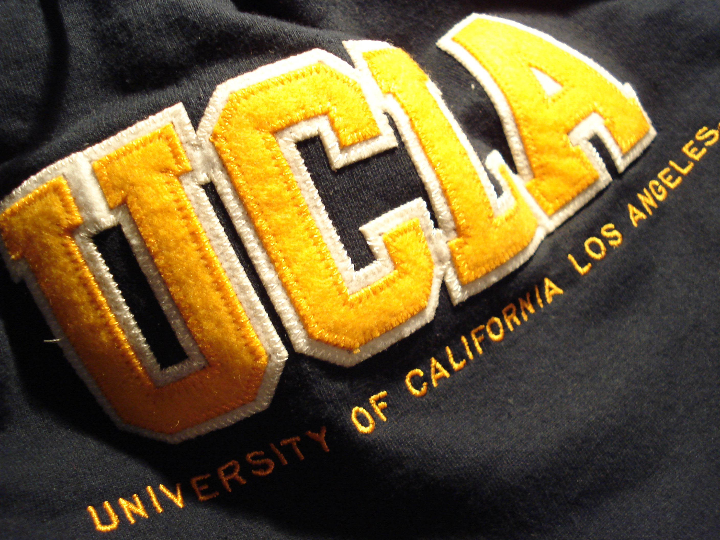 A hoodie with the University of California, Los Angeles trademark.